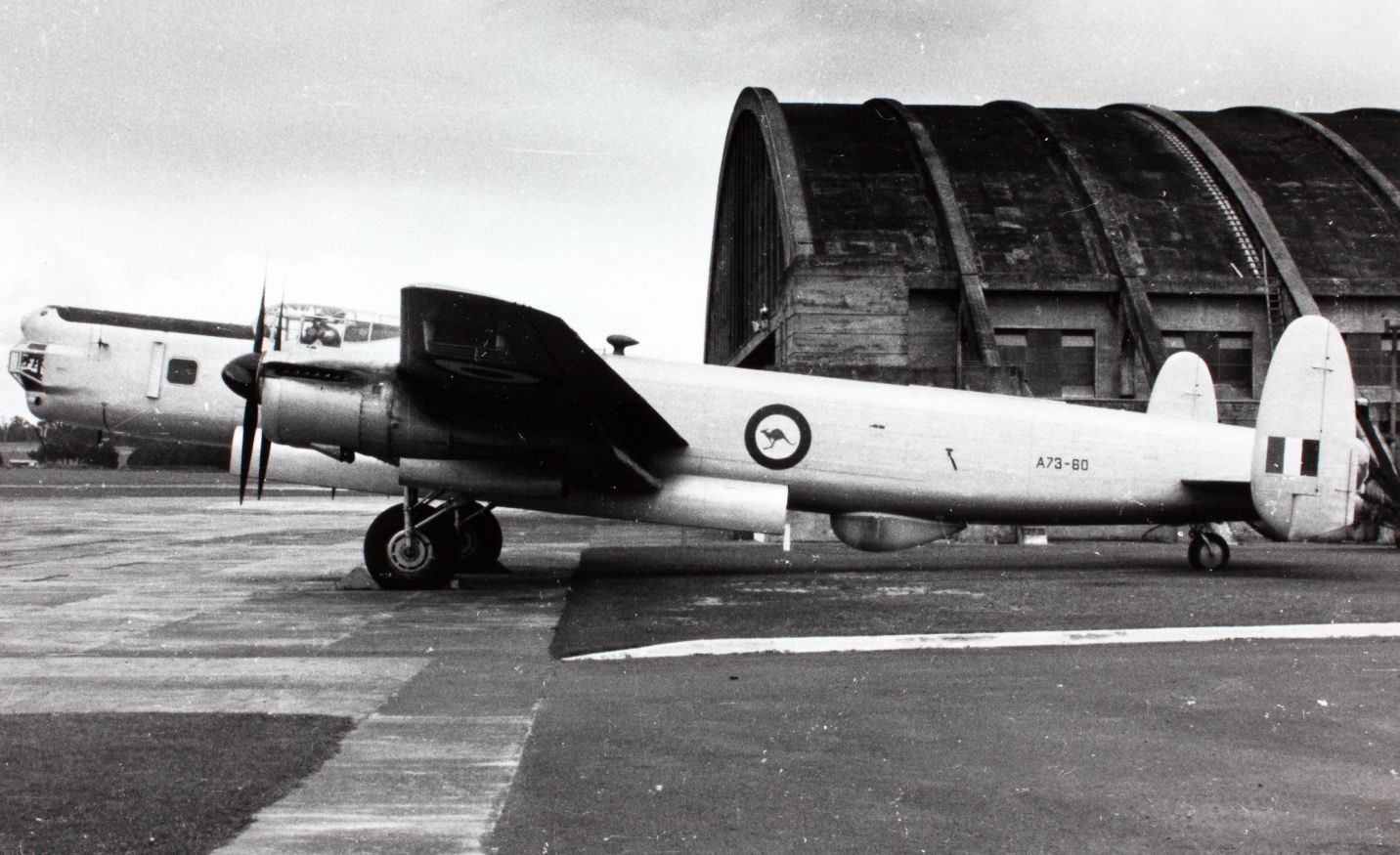 Image from the Charles Daniels Photo Collection album "British Aircraft." SOURCE INSTITUTION: San Diego Air and Space Museum Archive